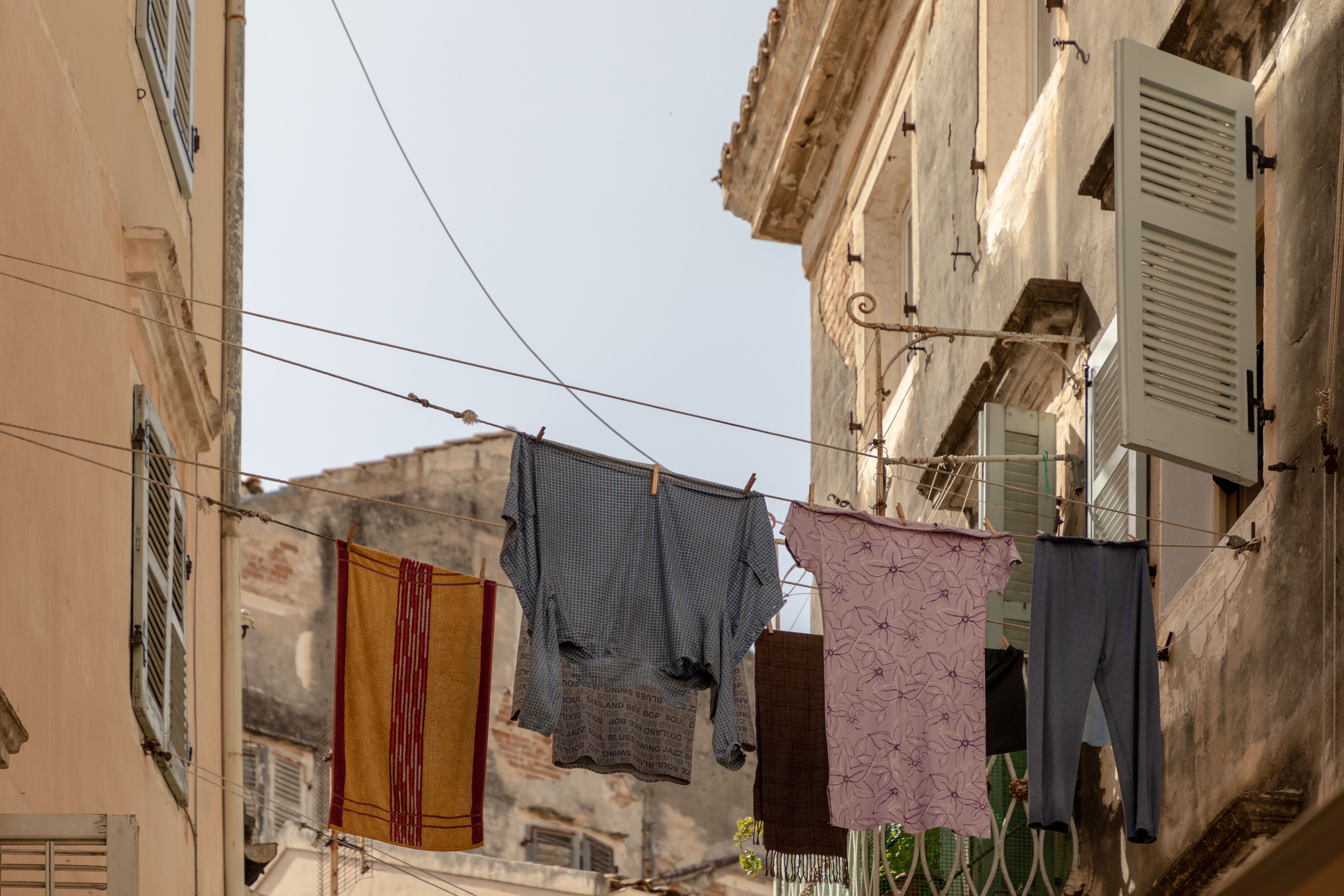 Old town, Corfu, Greece